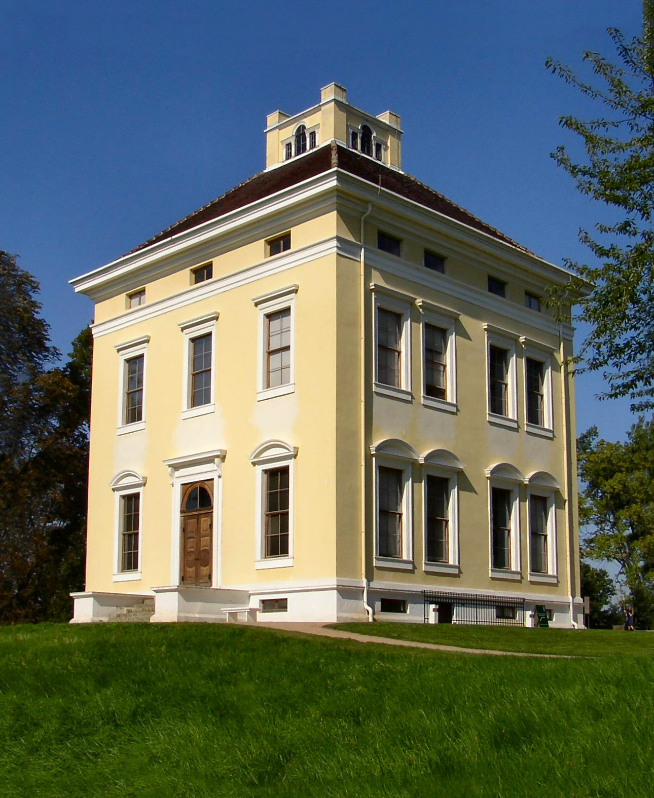 Palace Luisium in Dessau-Waldersee in Saxony-Anhalt, Germany